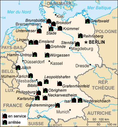 Map in French of the German nuclear power plants